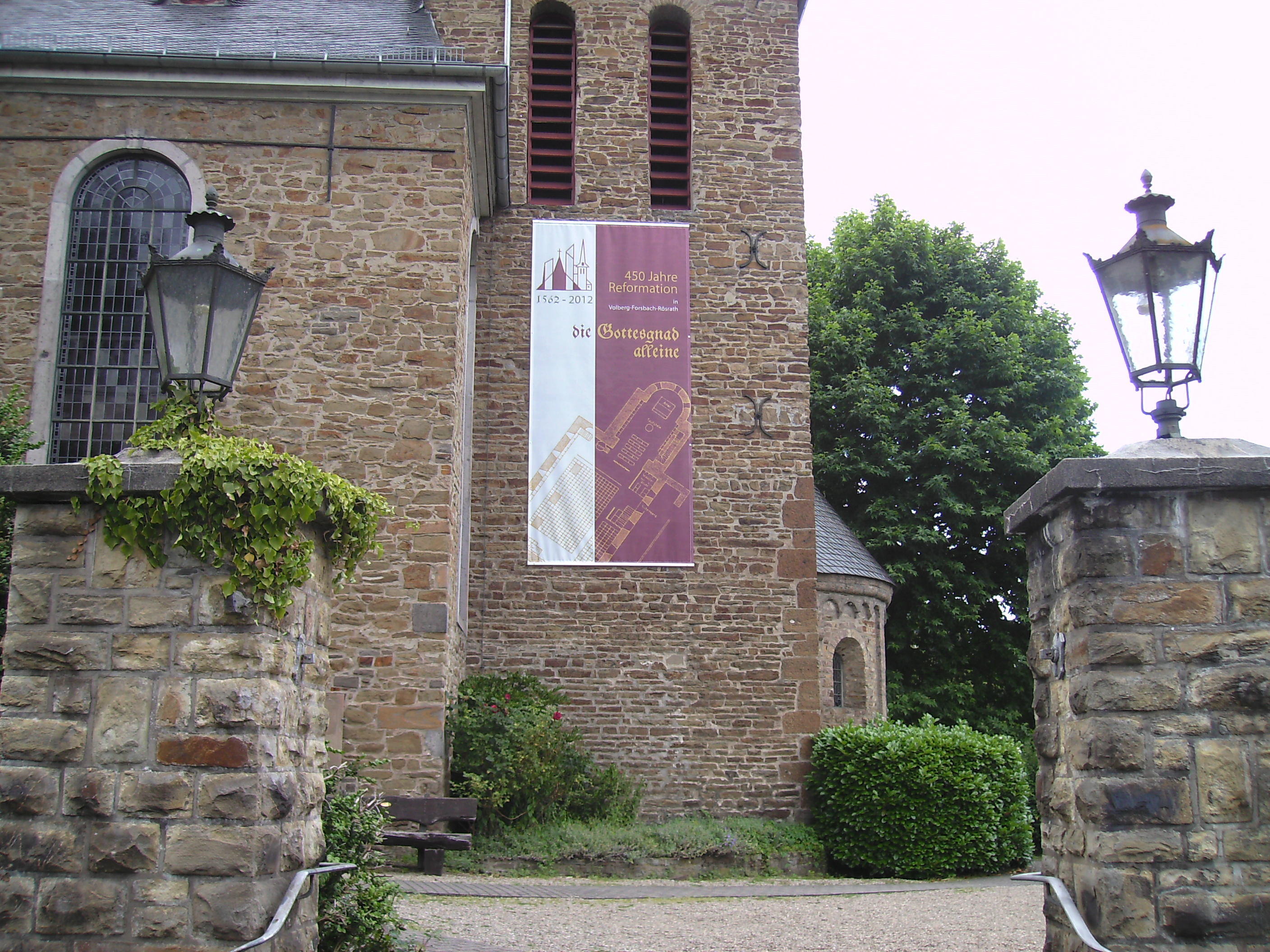 Protestant church "Volberg" in Rösrath, Germany.